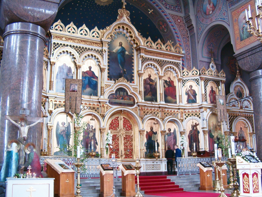 Iconostasis of Uspenski Cathedral in Helsinki, Finland